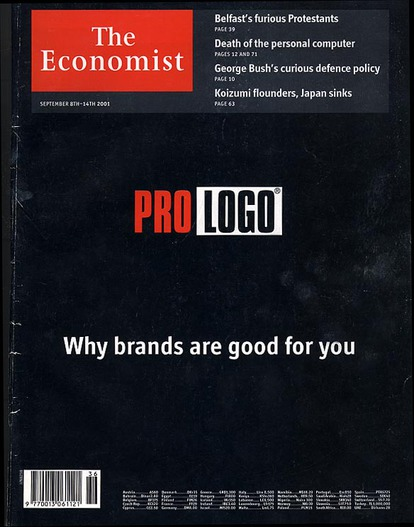 The Economist cover on 8 September 2001. The design is a reference to the book No Logo (1999).